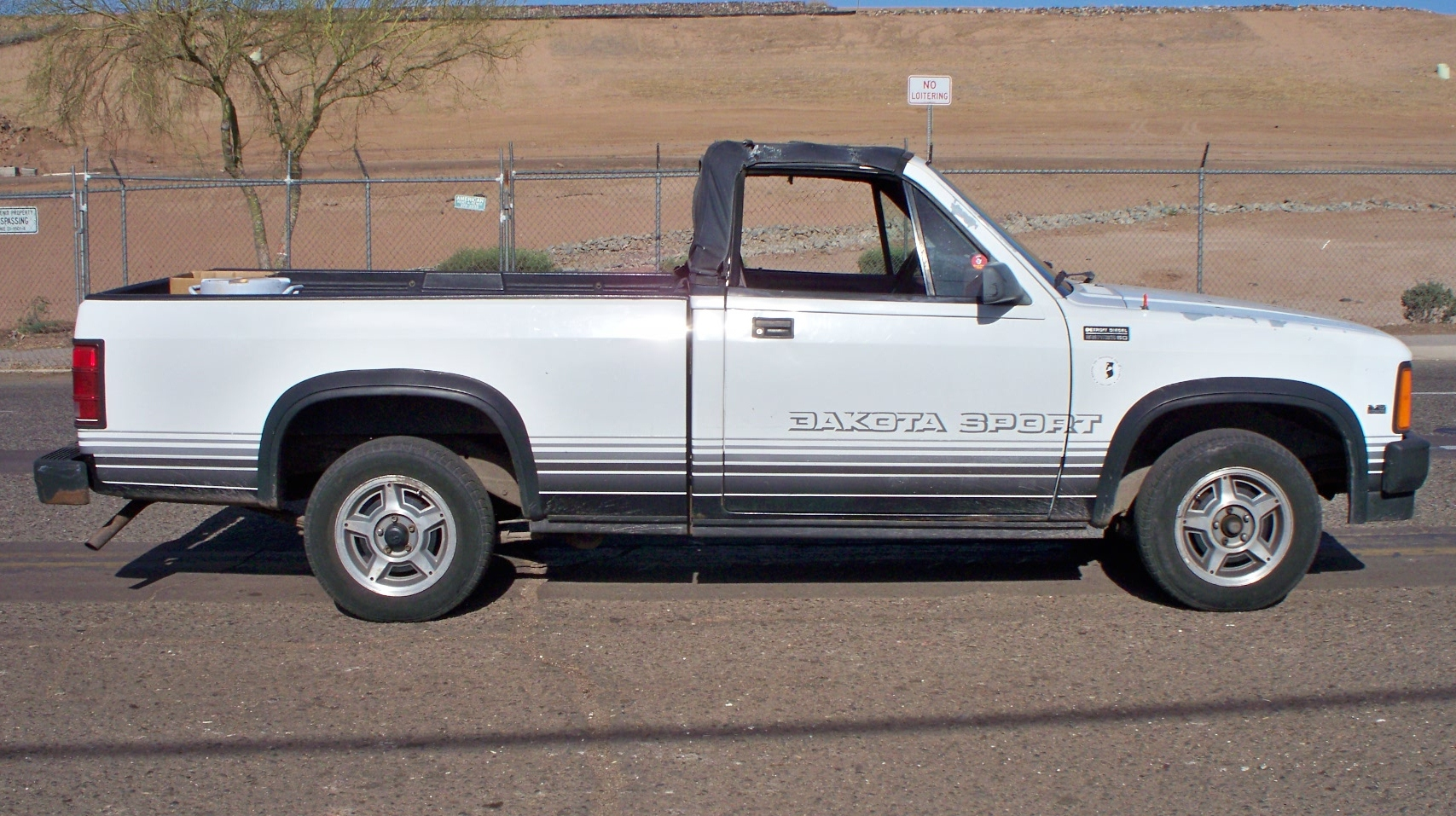 1989 Dodge Dakota right side view